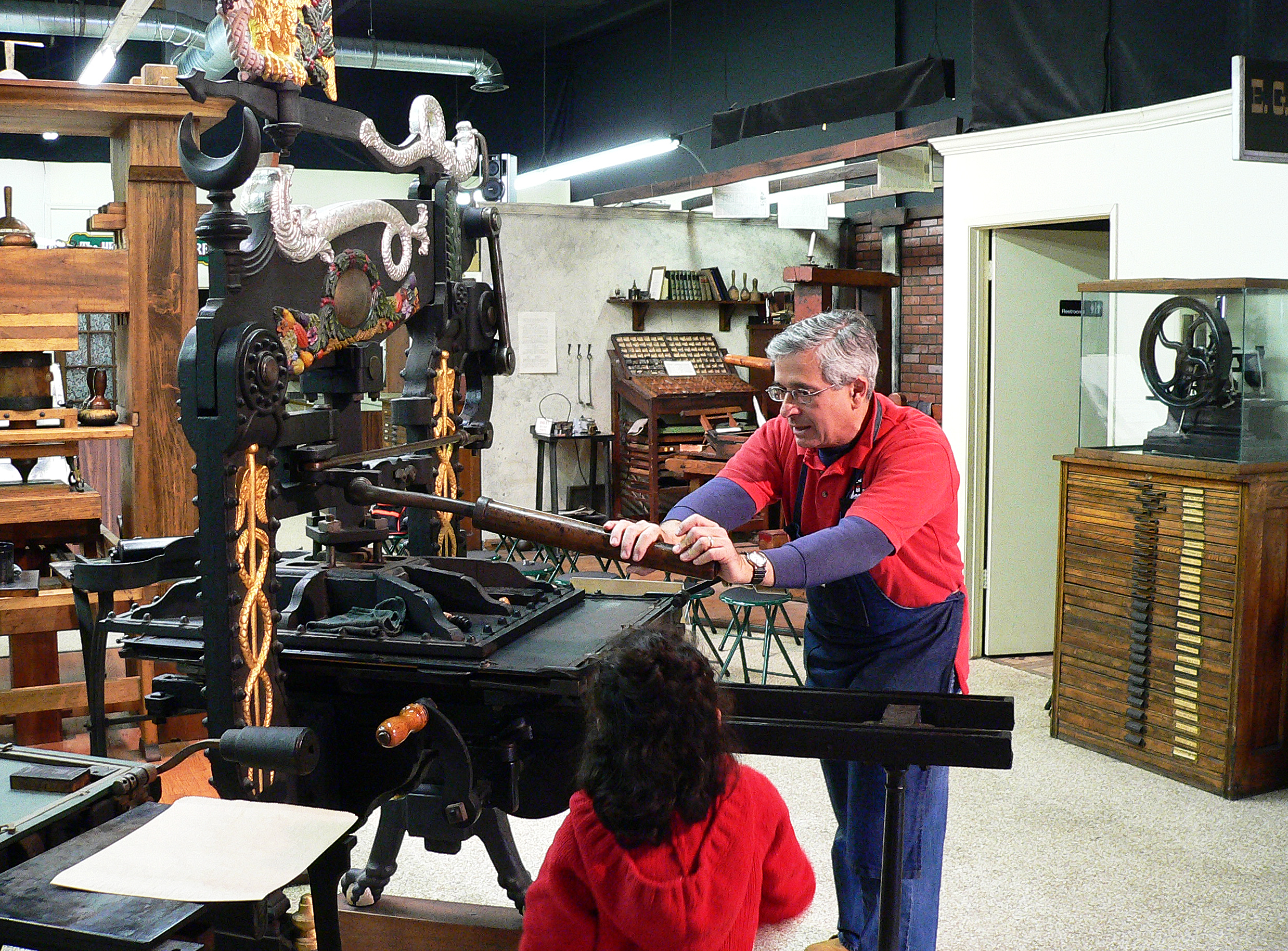 Peter Small demonstrating usage of an antique printing press to a student at the International Printing Museum.